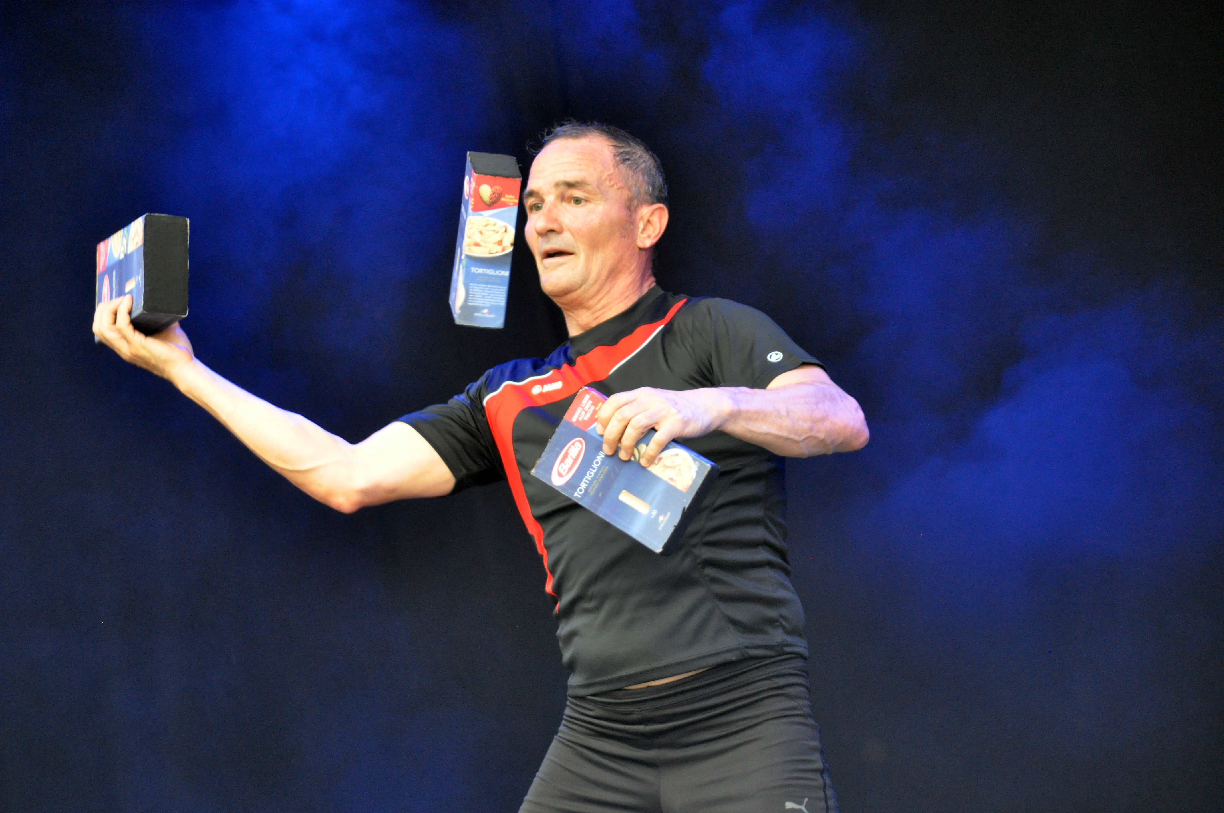 Juggler Dino Lampa at the Zwarte Cross festival